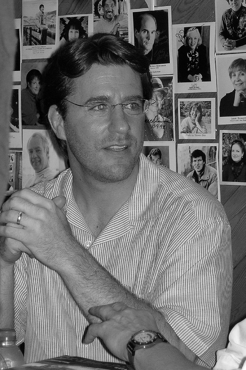 Photo of author Barry Eisler.